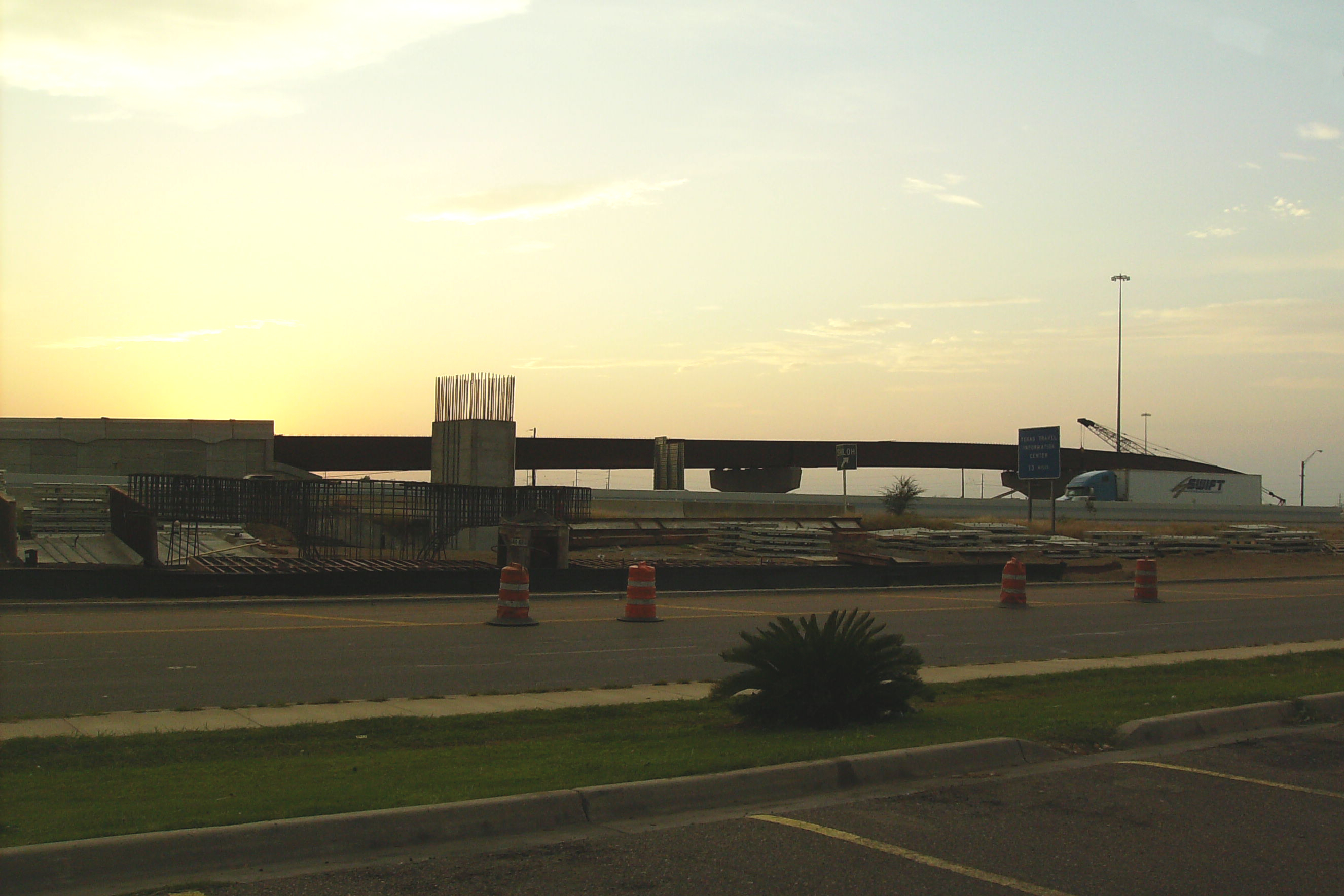 Construction on IH 35 and FM 1492 in Laredo, Texas